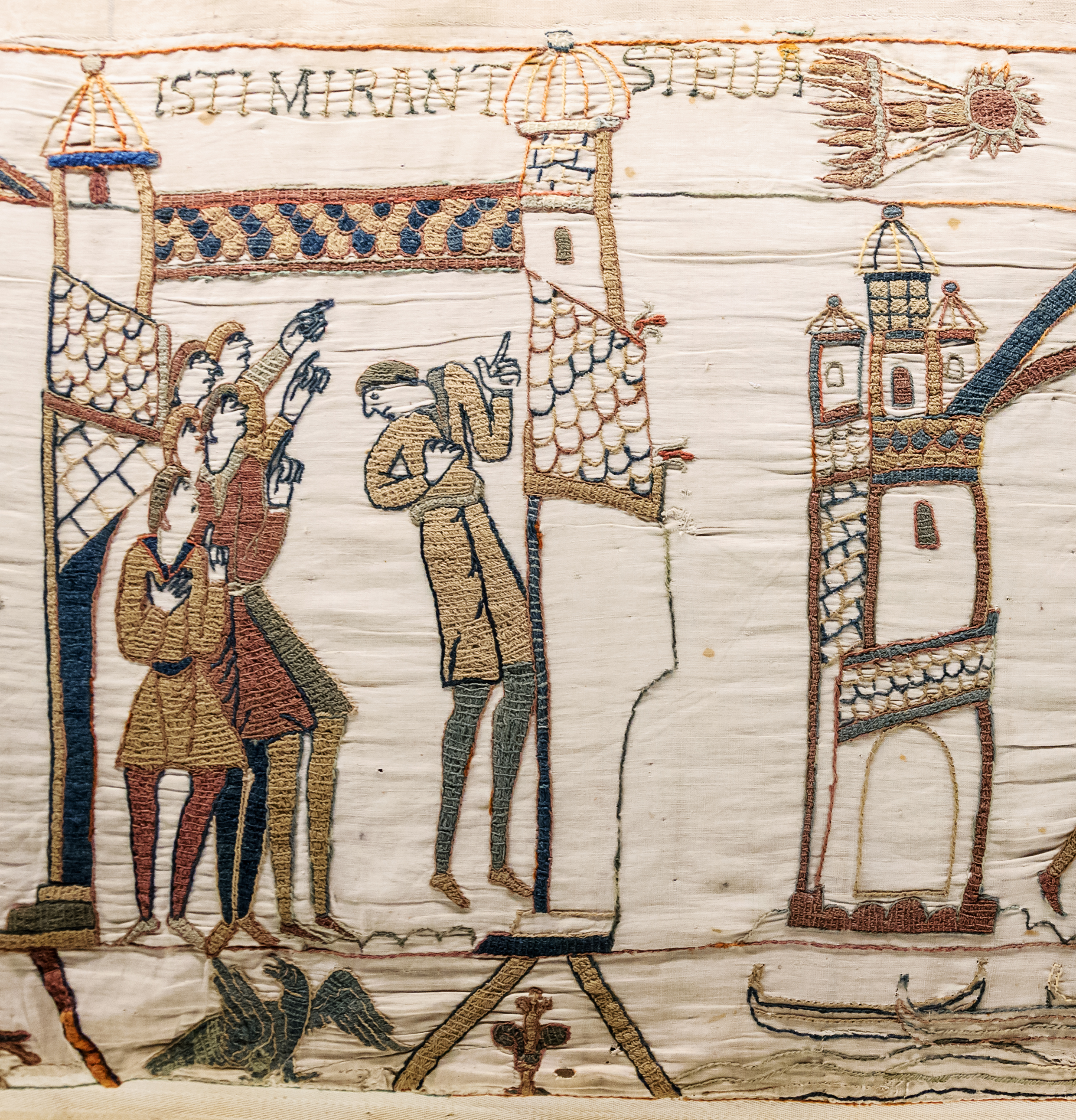 Bayeux Tapestry - Scene 32 : men staring at Halley's Comet